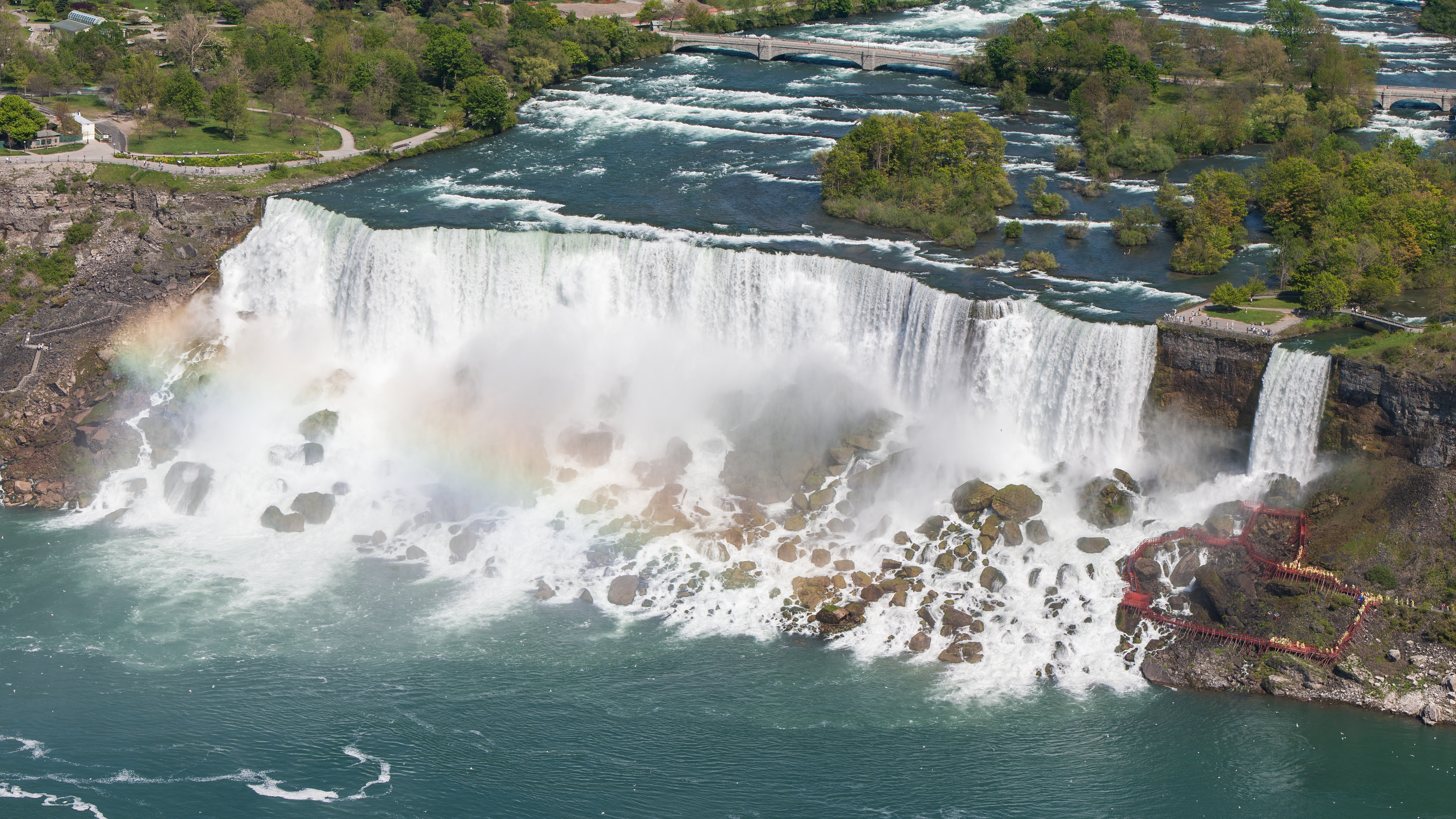 The American Falls and the Bridal Veil Falls of the Niagara Falls in the USA from Skylon Tower on May 28, 2002.